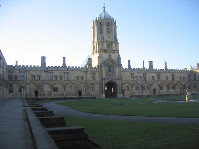 Tom Quad, Christ Church, Oxford, showing Tom Tower.